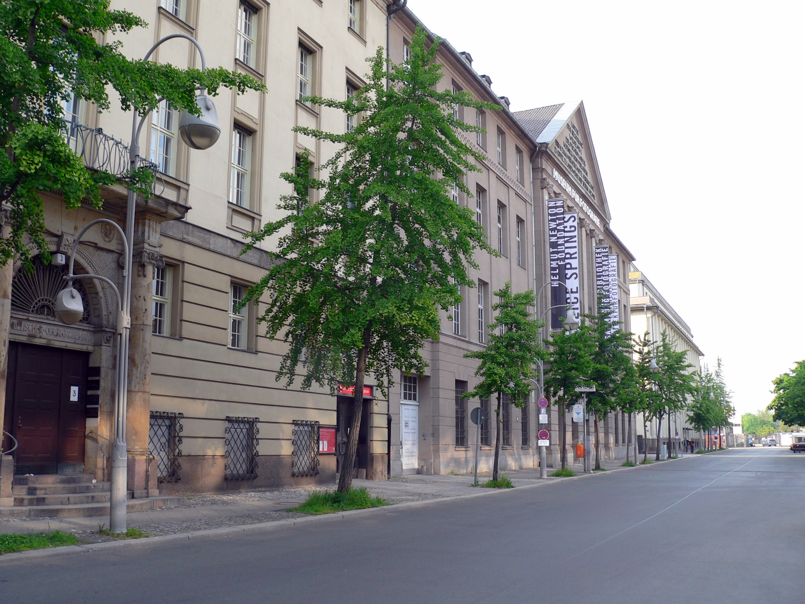 Berlin-Charlottenburg Jebensstraße, Evangelischer Oberkirchenrat (EOK) of the Evangelical Church of the old-Prussian Union (left, partial view; now seat of the Office of Protestant Bundeswehr chaplains) and the Museum für Fotografie (right).